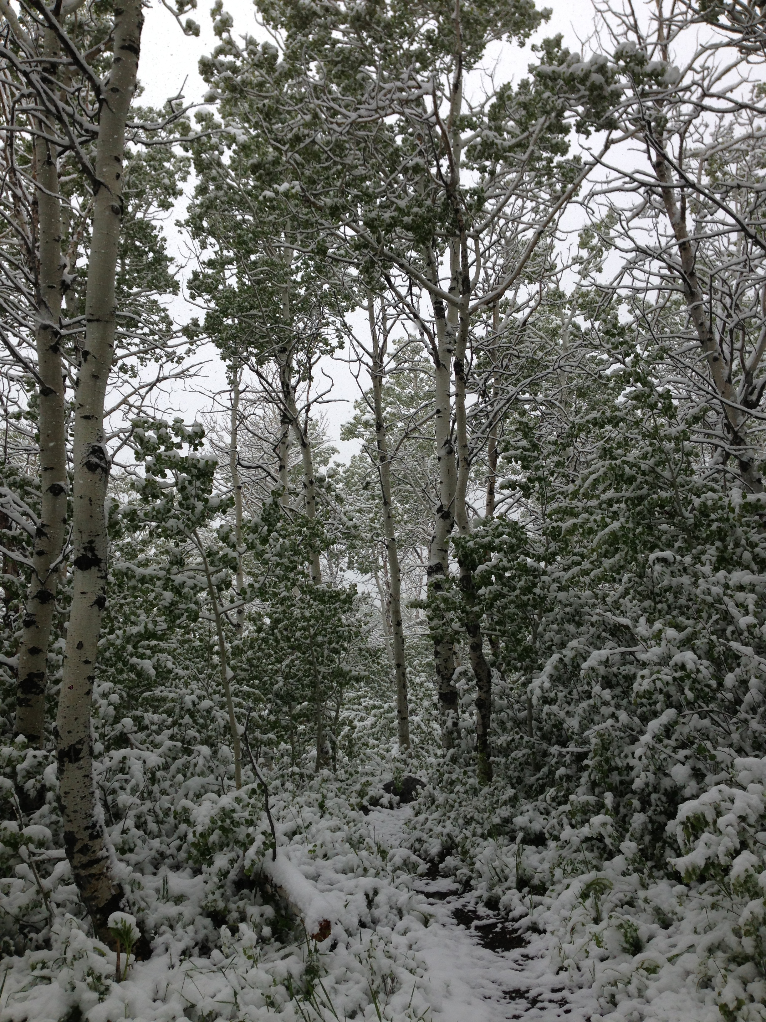 Snow in June on Aspens with summer foliage along the Changing Canyon Nature Trail in Lamoille Canyon, Nevada